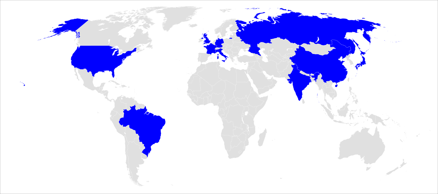 Blue: The Great Powers Green: The Emerging Great Powers.